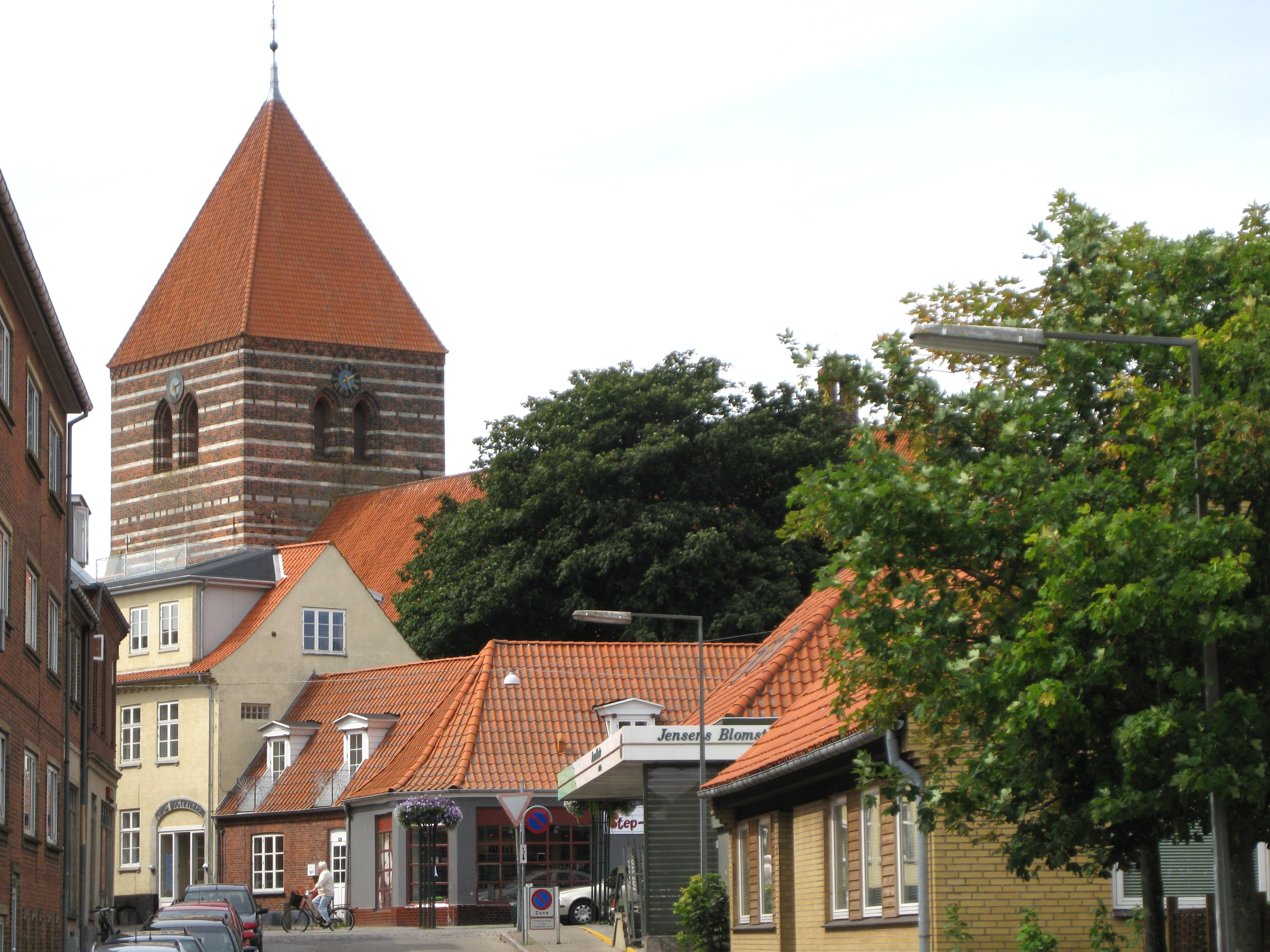 View at the tower of the church "Stege Kirke" in the small town "Stege". The town is located on the island Møn south of Zealand in east Denmark.